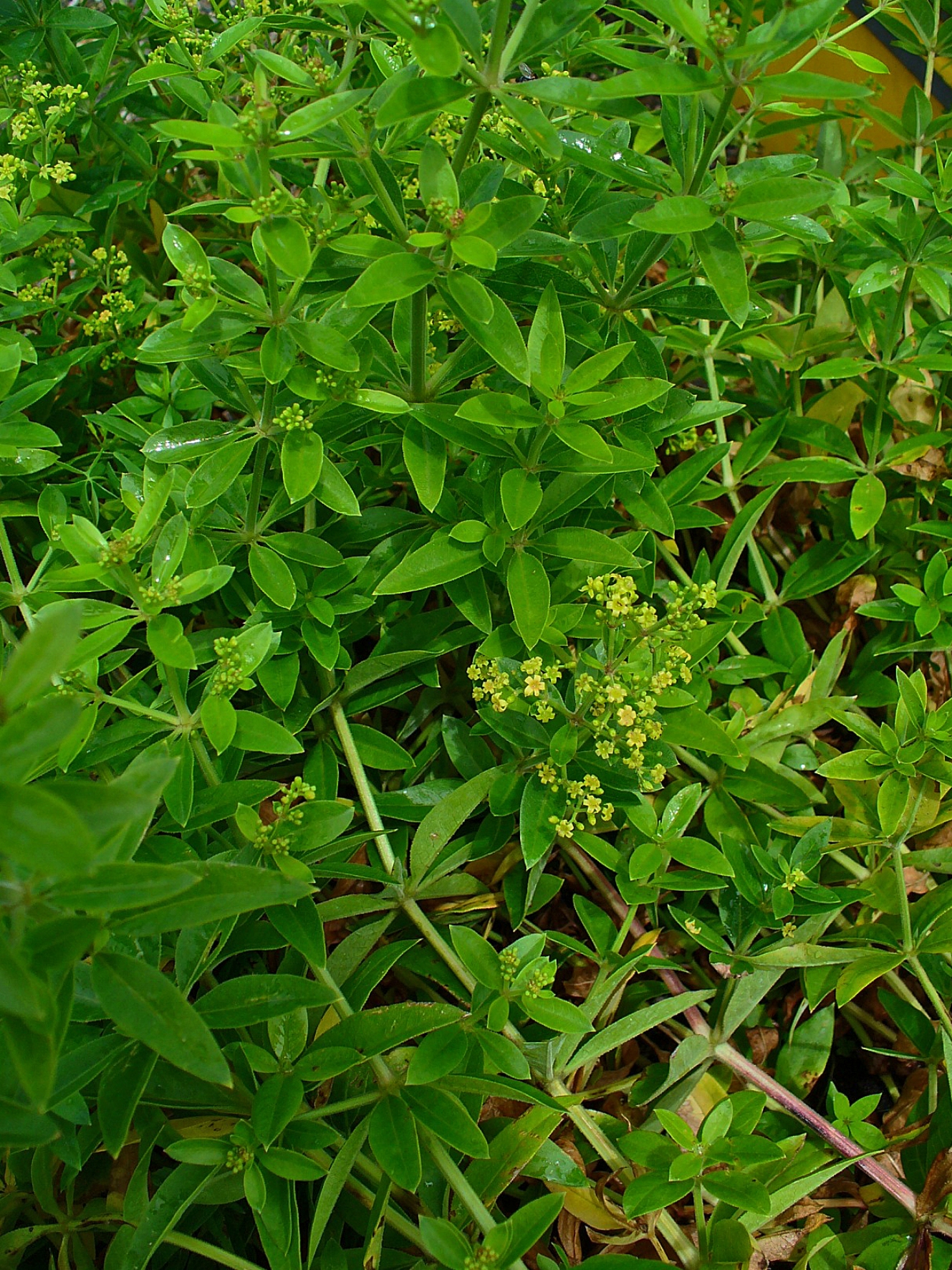 Rubia tinctorum, Rubiaceae, Common Madder, habitus. Botanical Garden KIT, Karlsruhe, Germany.